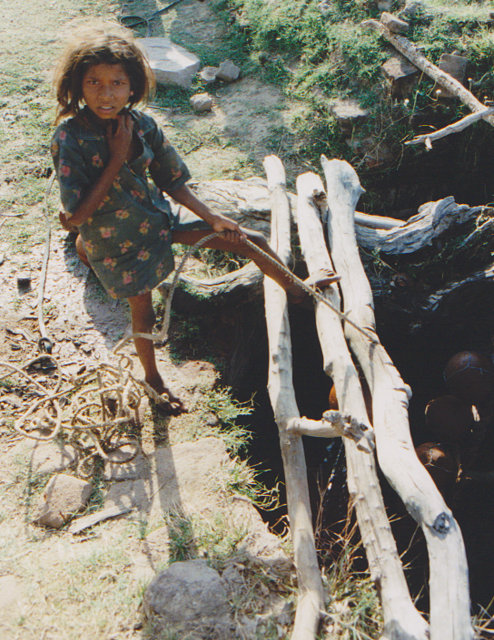 Many girls in countries like India and Nepal have difficulty and need hard work, child labour is still prevalent in such countries